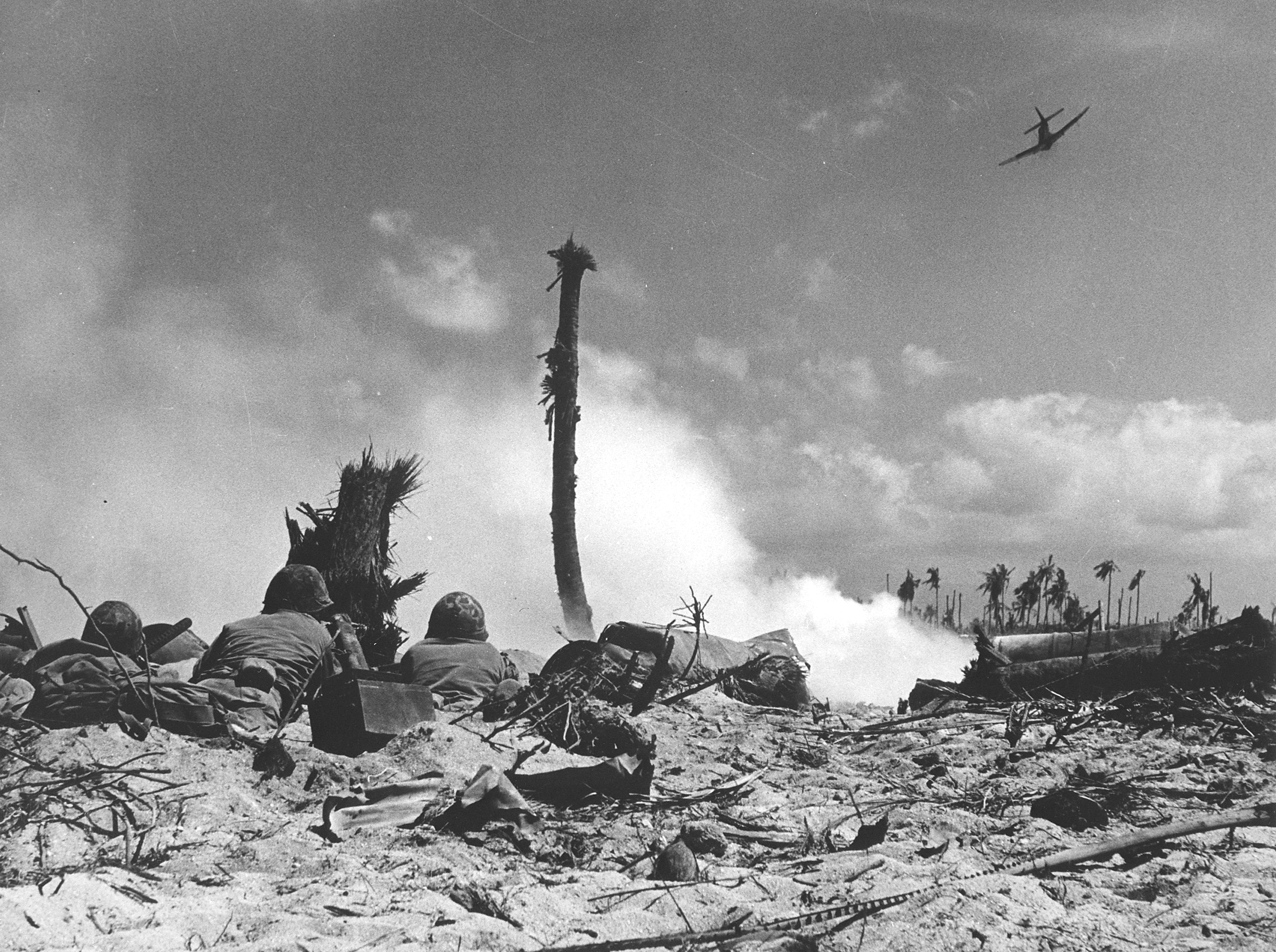 Three U.S. Marines man a machine gun position near a Japanese dugout on one of the islands of Eniwetok Atoll, ready of knock out snipers, 18-22 February 1944. An Douglas SBD Dauntless bomber is passing overhead.